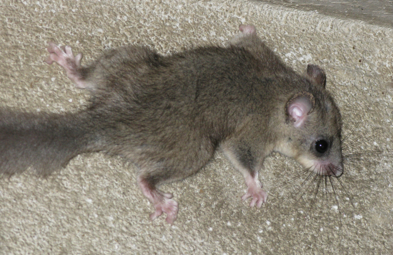 Edible dormouse.